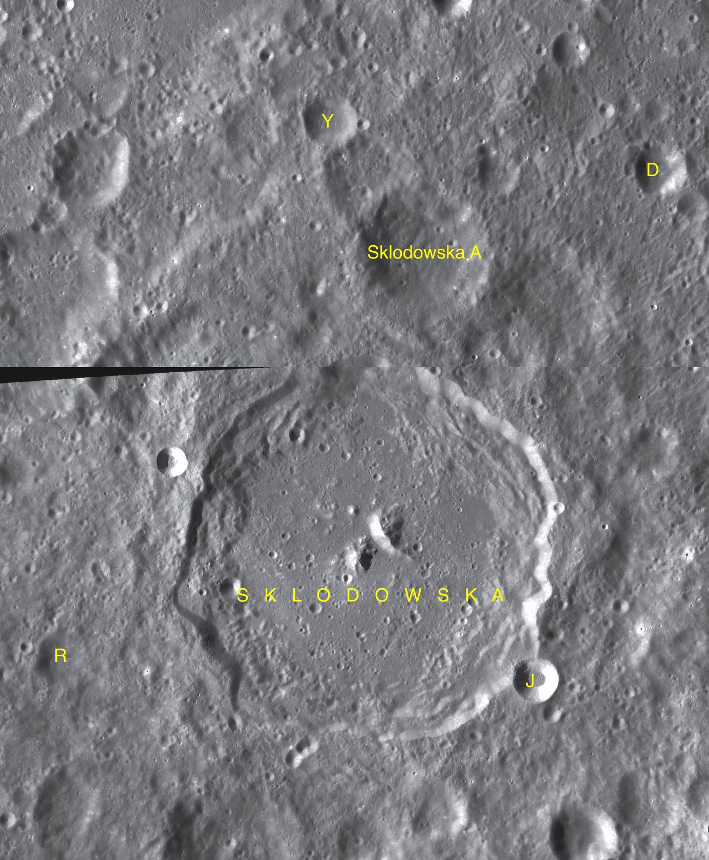 Parts of the charts LAC-82, LAC-100 used for the presentation.